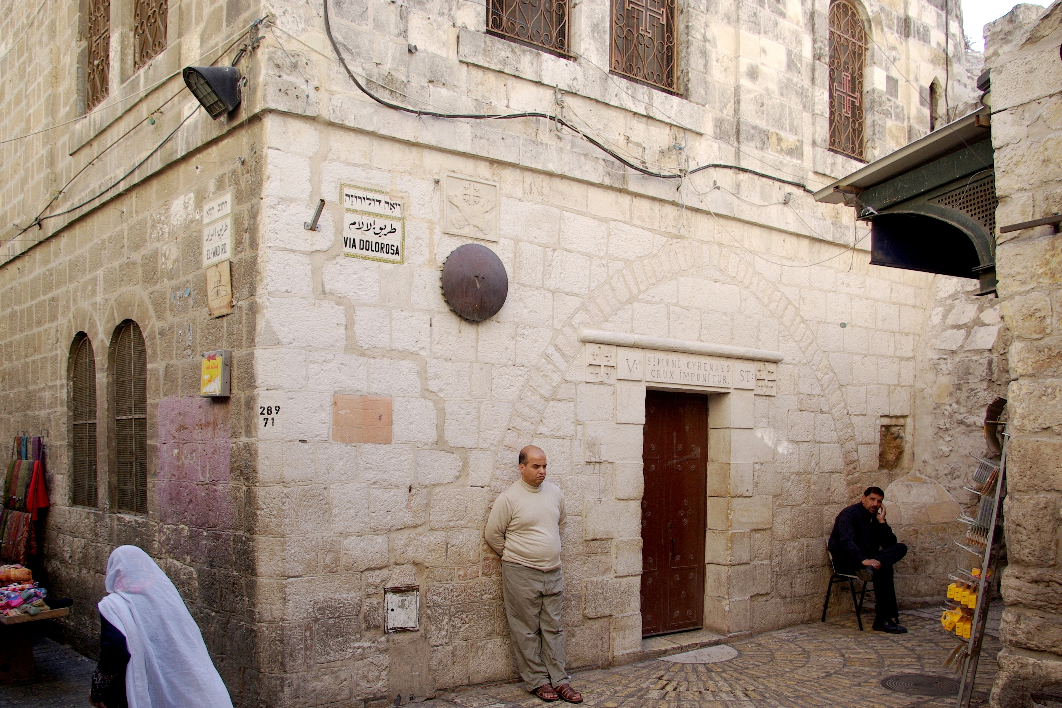 Jerusalem, Via Dolorosa (corner with El Wad), Station V